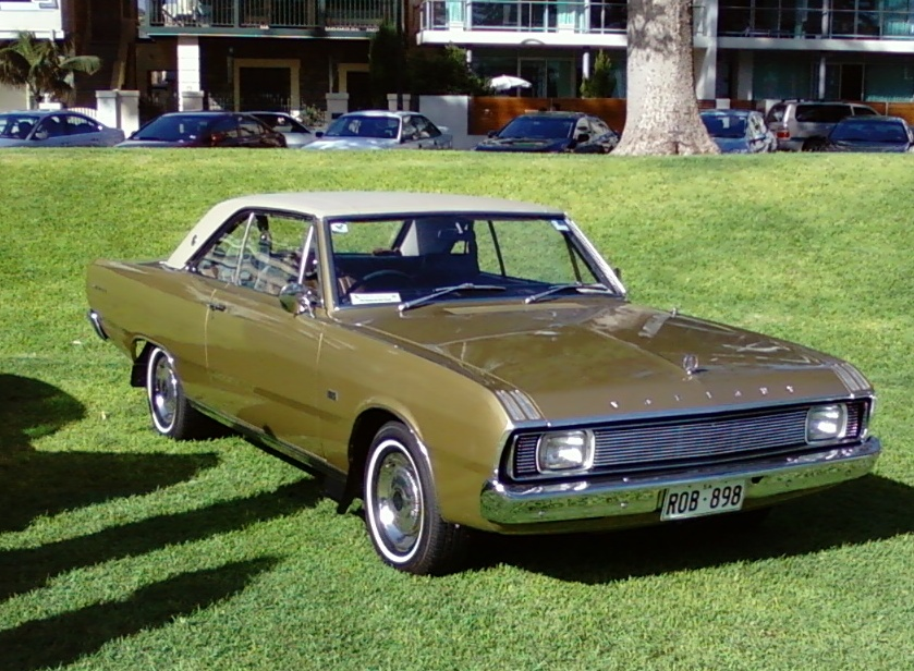 Chrysler VG Valiant Regal 770 Hardtop (Chrysler Australia, 1970-71)